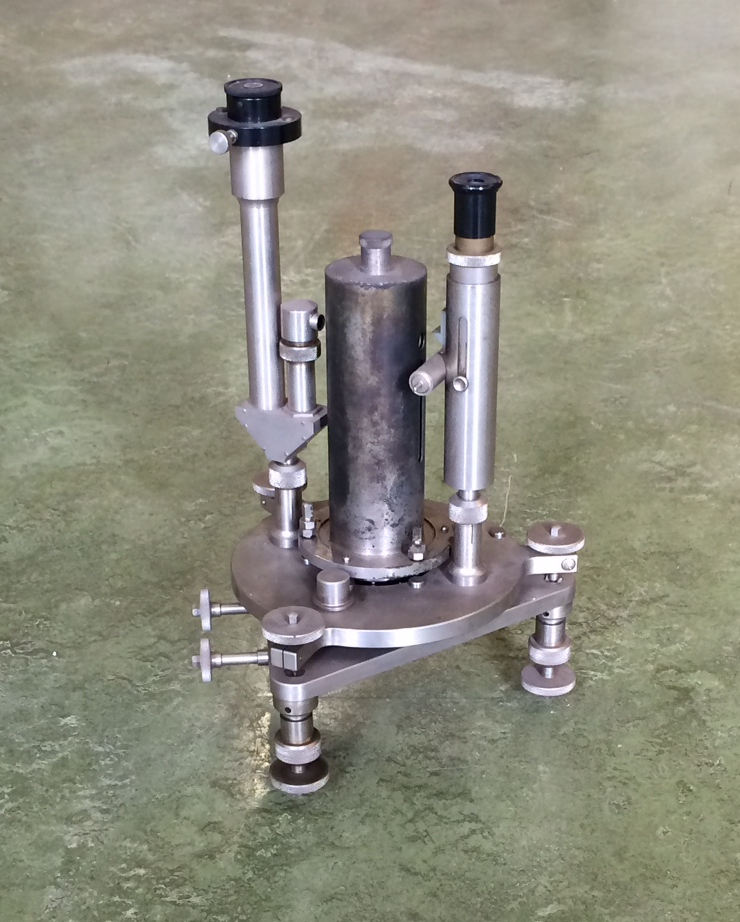 The Holweck-Lejay Gravimeter no. 628 with footplate no. 33 (GI-683) Made in France, Faculty of Geoscience, Utrecht University